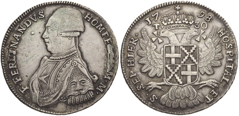 Malta. Ferdinand Hompesch. Grand Master, 1797-1798. AR 30 Tari (41mm, 29.60 g, 1h). Dated 1798. F FERDINANDVS HOMPESCH M M; bust left; dot before HOSPITAL ET S SEP HIER Crowned double-headed eagle with arms on breast. Cross of Malta, date, T 30 (30 tarì) Davenport 1611C; KM 345.4. VF, toned, some roughness. It is believed that this issue was struck during the French occupation of Malta.